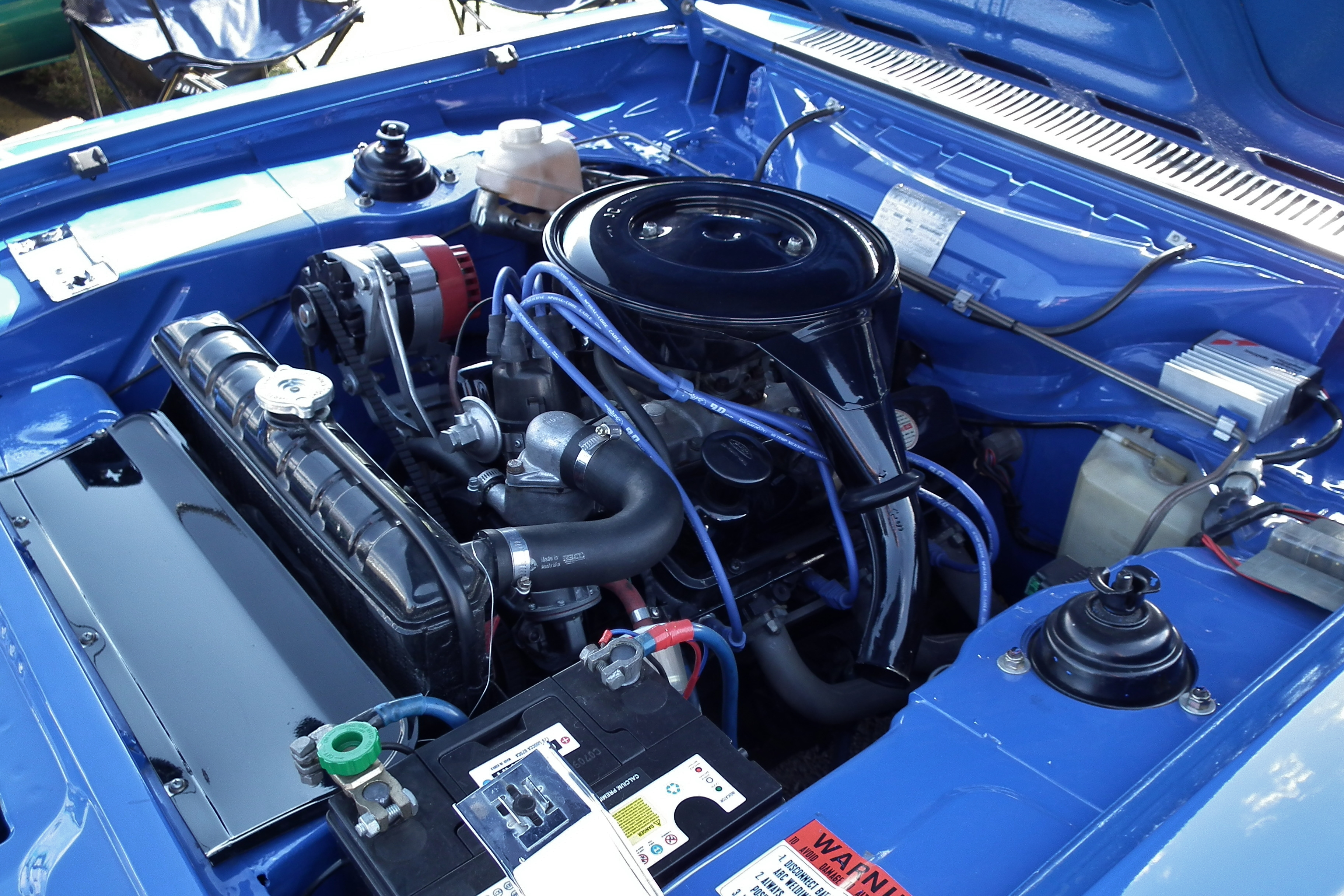 1971 Ford Capri GT 3000 V6 coupe engine. Taken at the 2011 New South Wales All Ford Day, held at Eastern Creek Raceway.